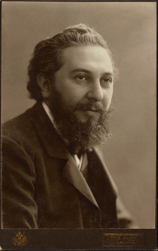 Edmund Eysler